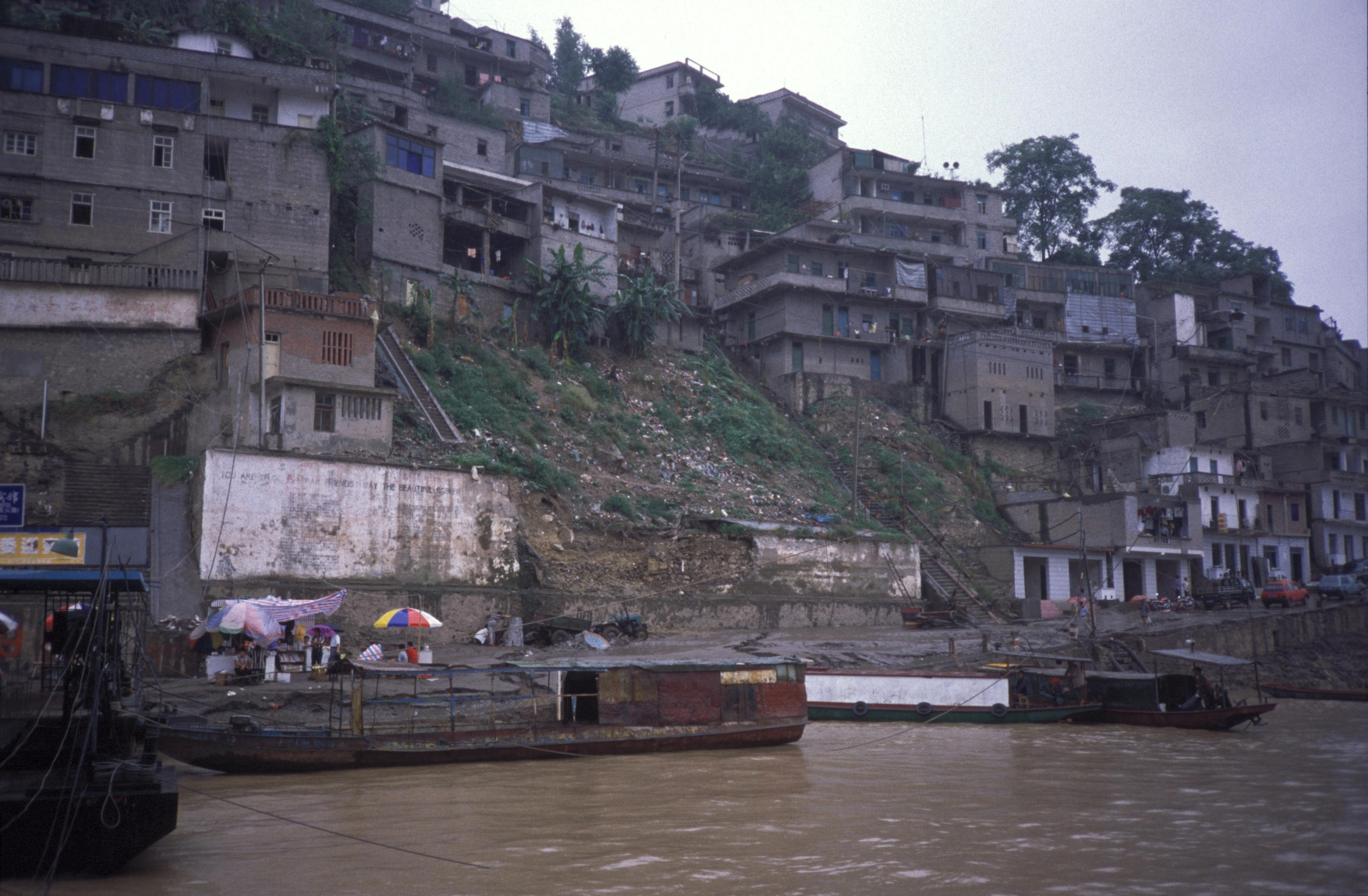 Houses in Wushan — in Chongqing Province, southern China. . On the Chang Jiang (Yangtze River).